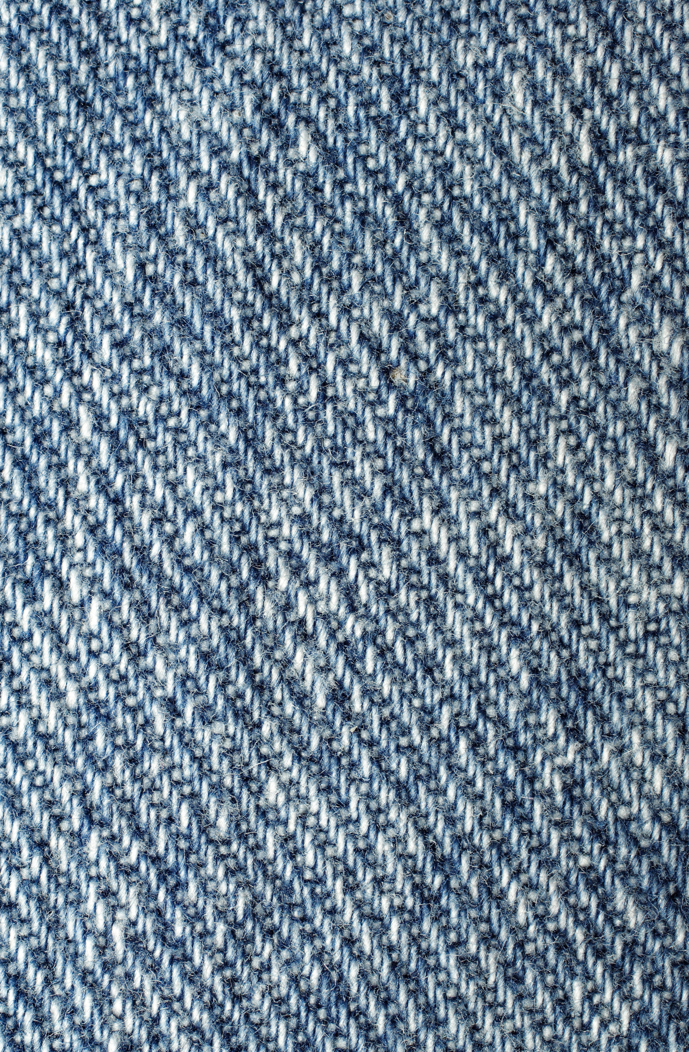 Denim, the jeans fabric